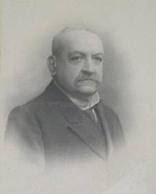 Spanish politician Bernabé Dávila